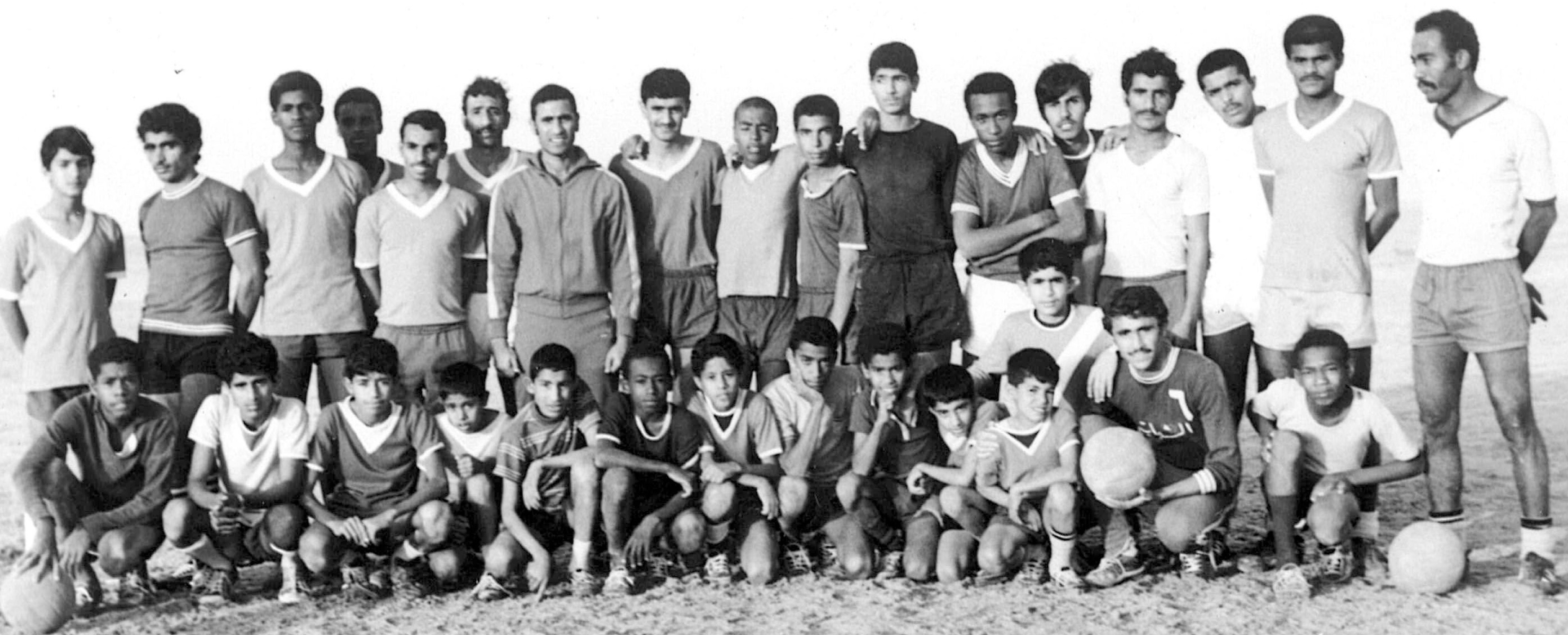 Al Ahli